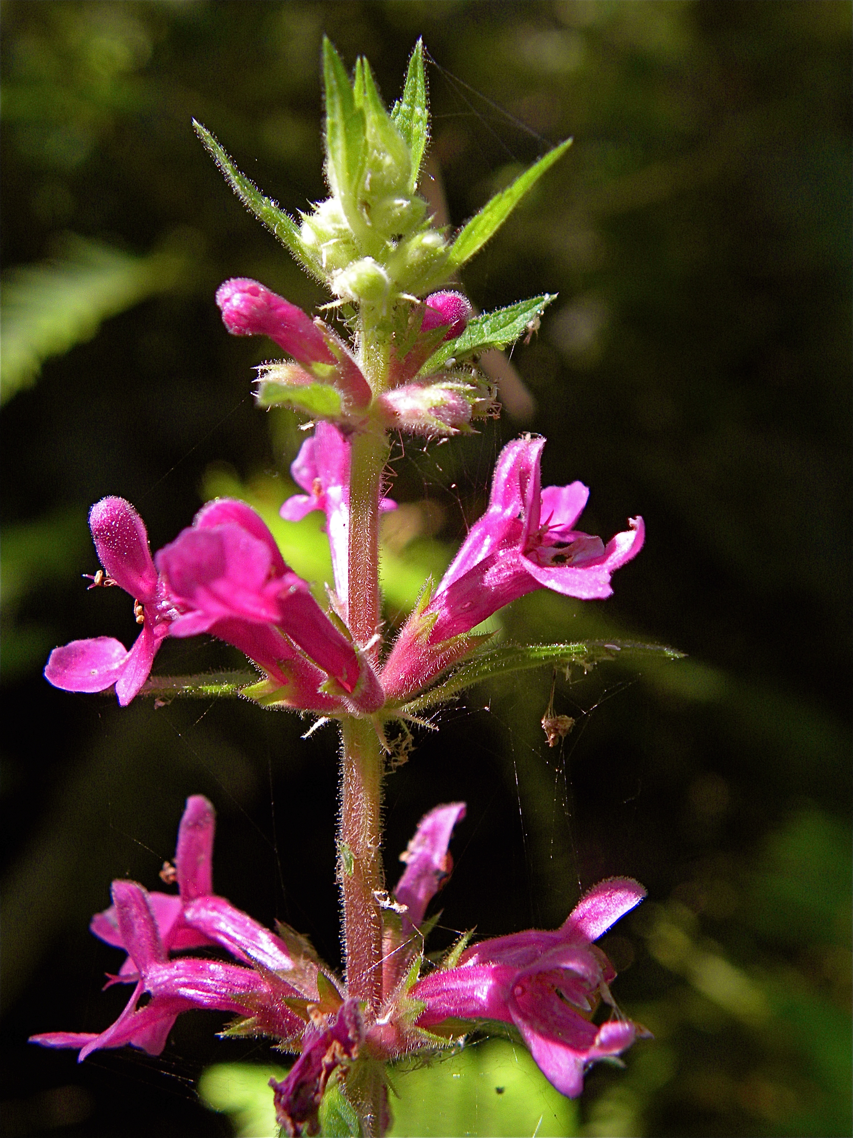 Stachys mexicana